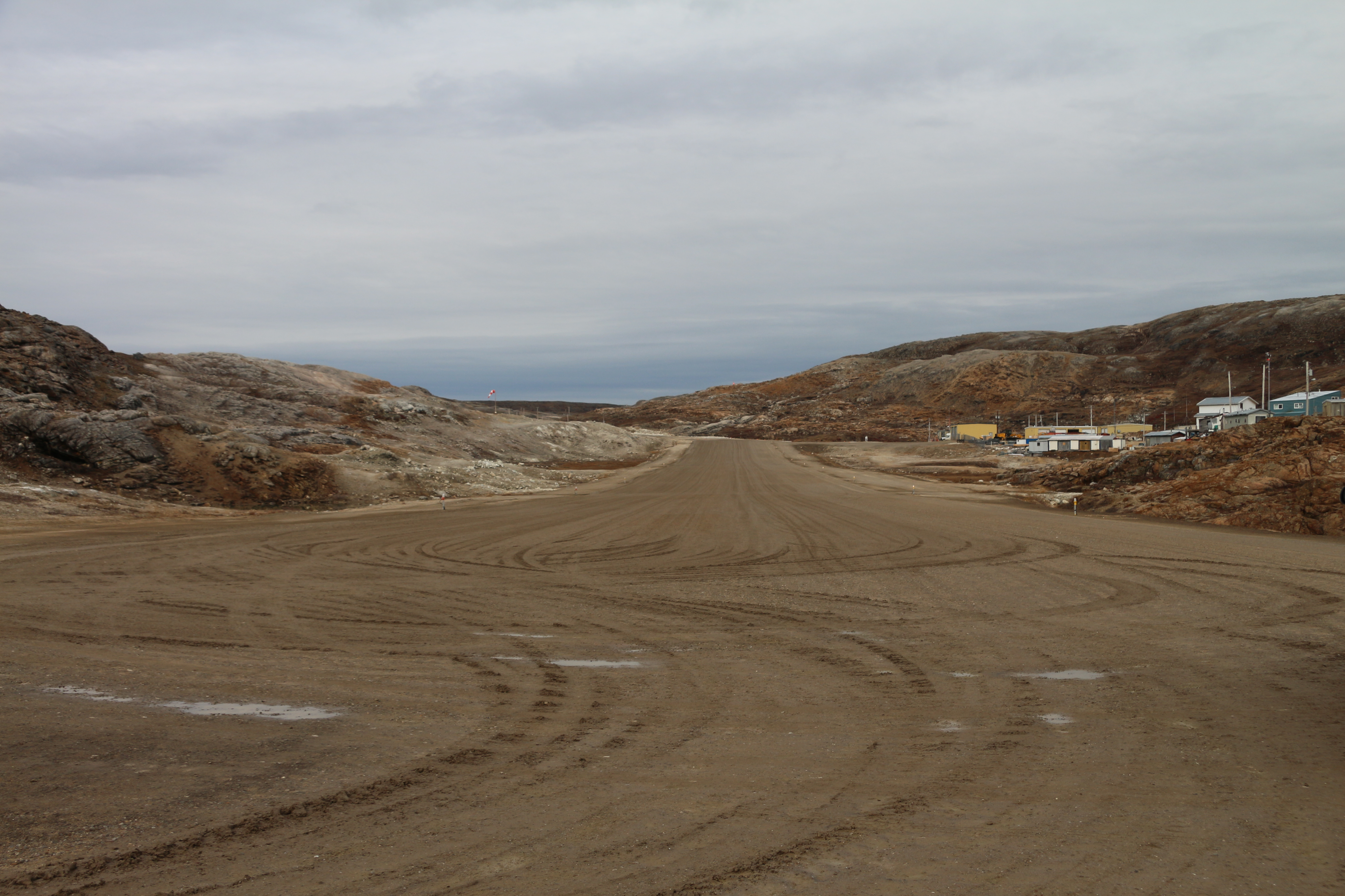 This is the preferred arrival runway